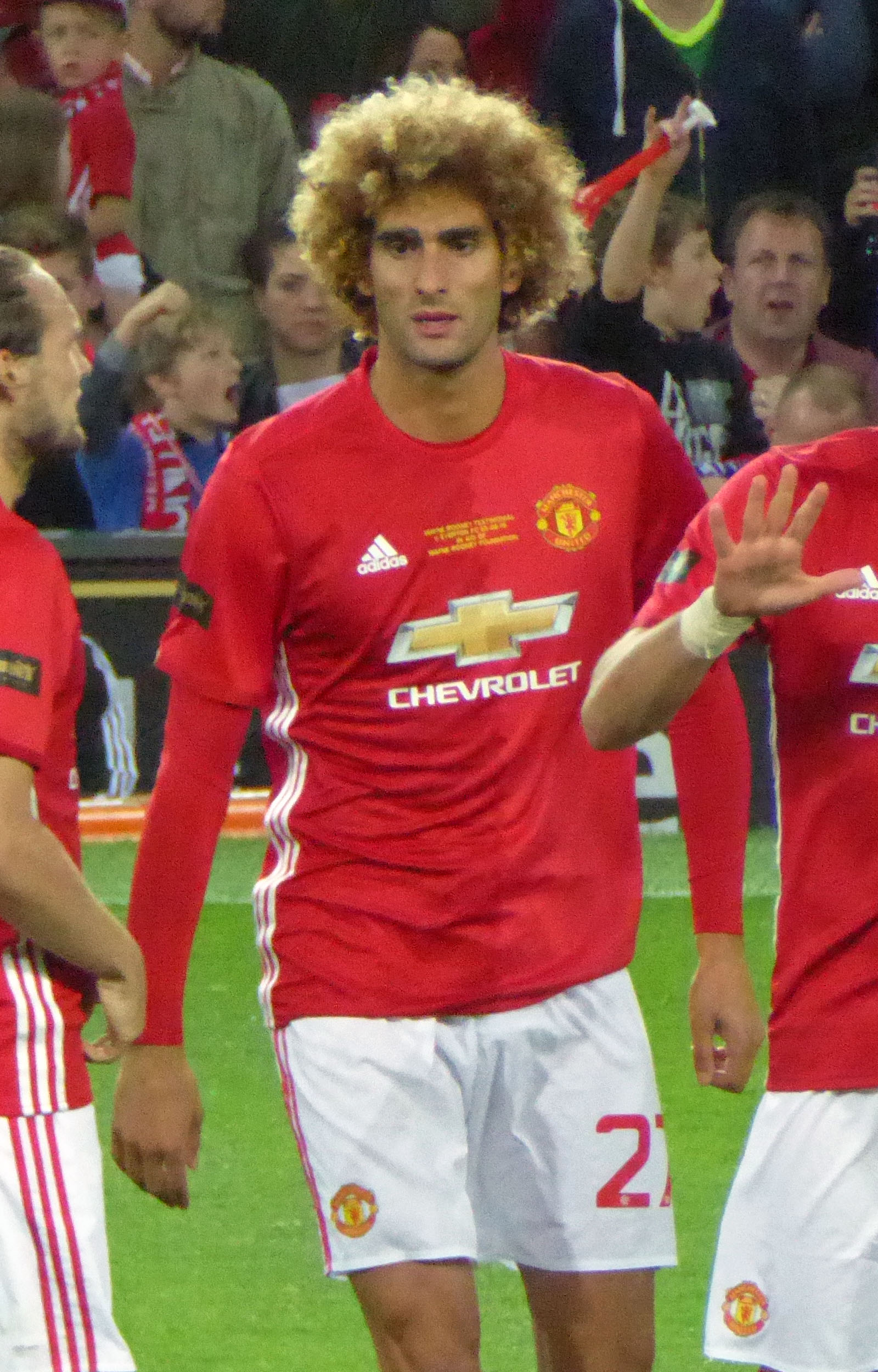 Manchester United v Everton (0-0), Wayne Rooney Testimonial, Old Trafford, Manchester, Greater Manchester, England, August 2016. Home debut of Zlatan Ibramhimovic.